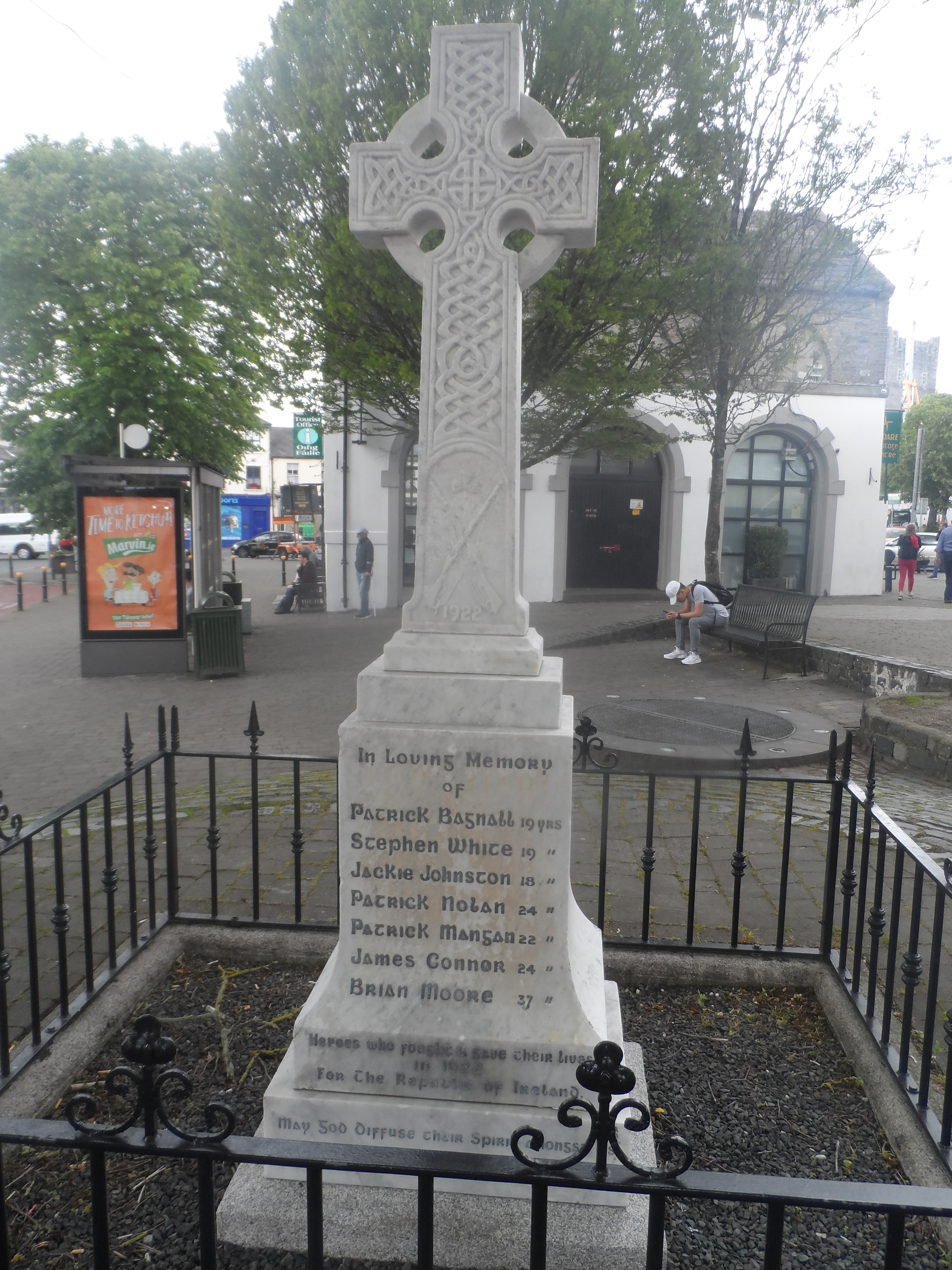 1916 memorial Kildare